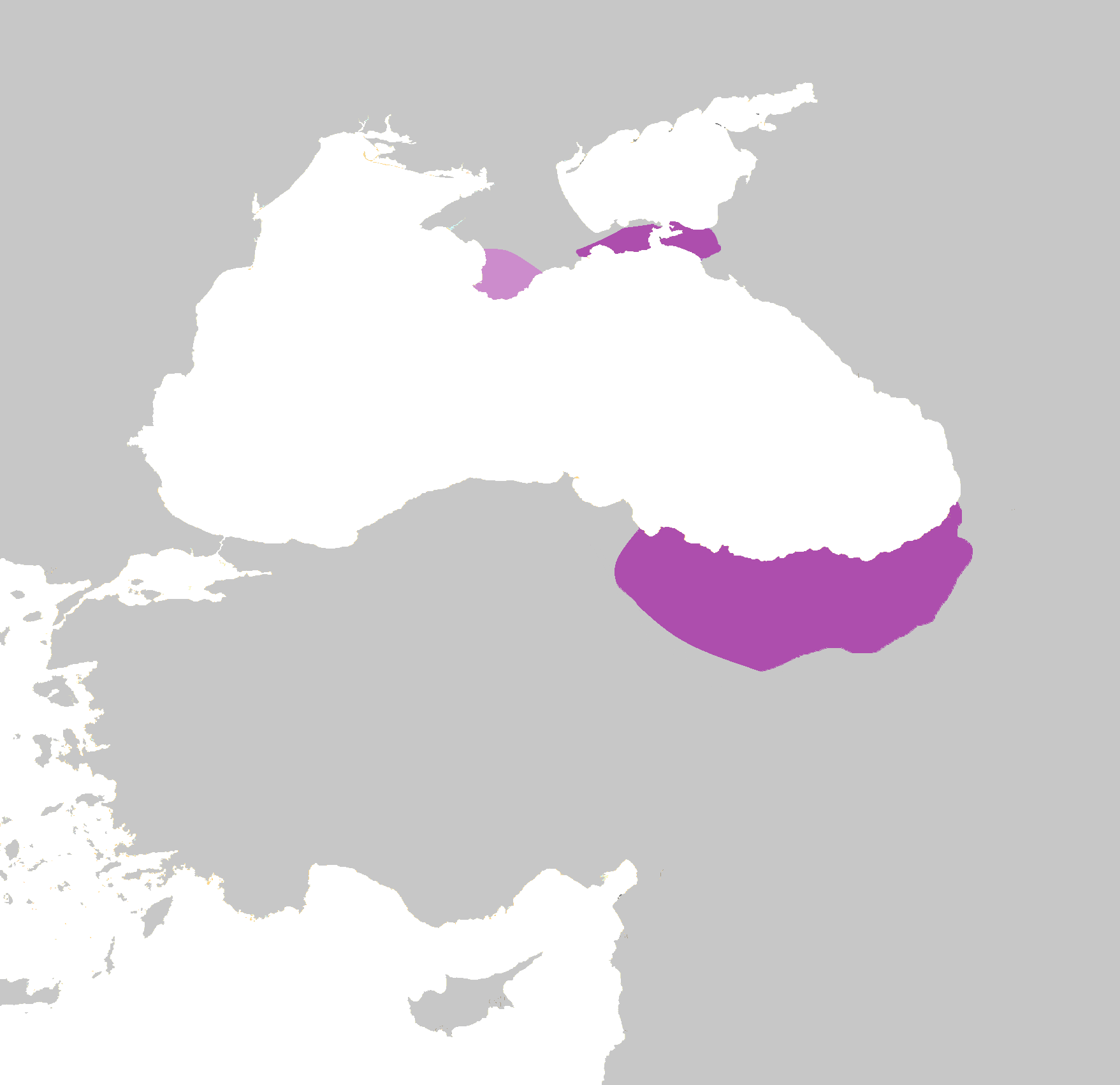 Map of the Empire of Trebizond in 1300 based on this